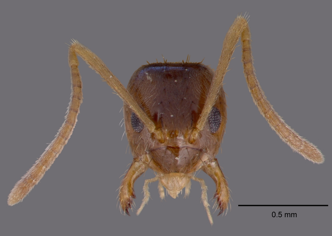 Head view of ant Paratrechina flavipes specimen casent0008645.